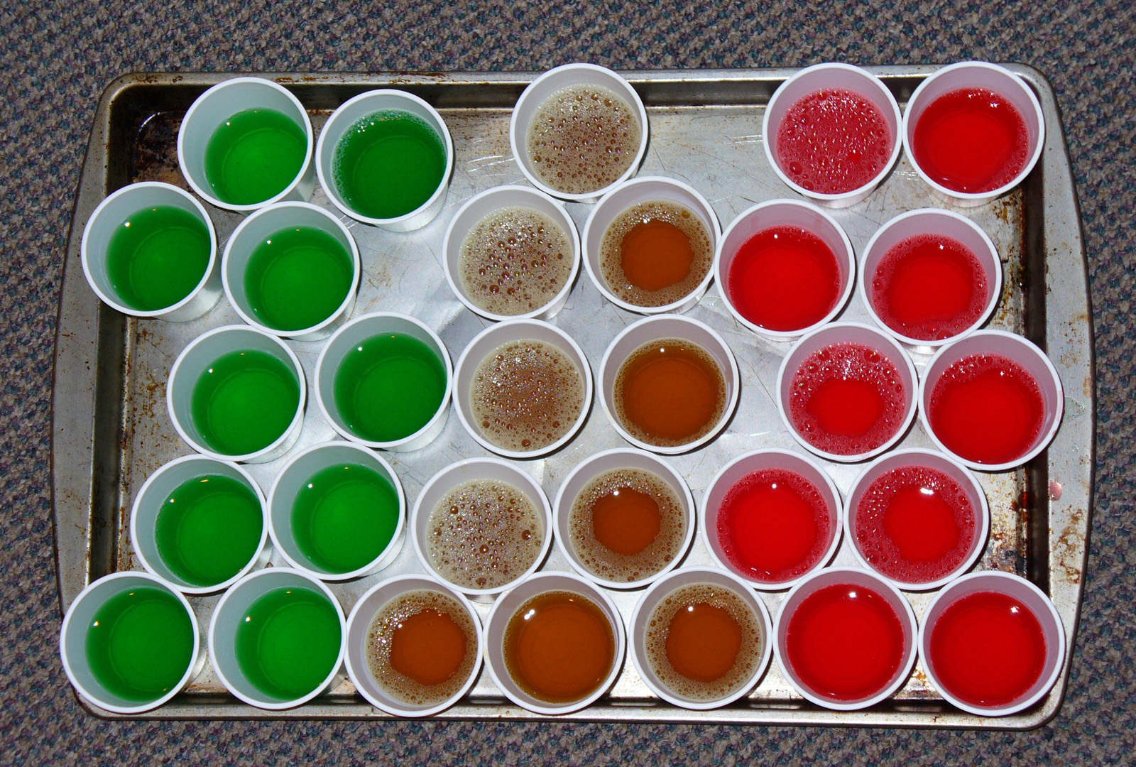 A tray of jello shots prior to refrigeration Green: Tequila and lime jello Brown: Whisky and lemon jello Red: Rum and strawberry jello